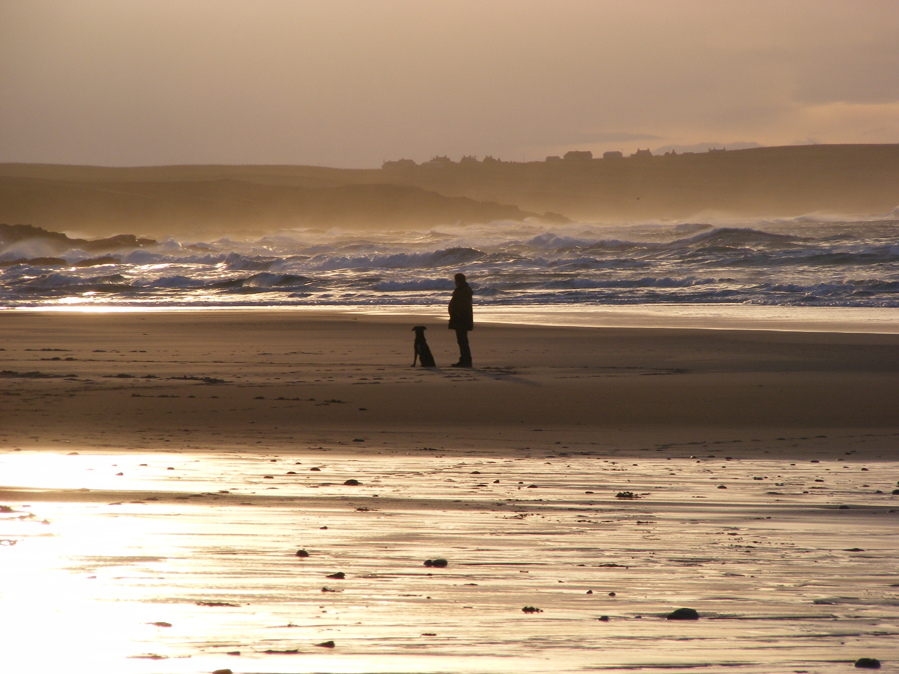 Dog walker on the beach at Eoropie, Isle of Lewis, Outer Hebrides, Scotland.